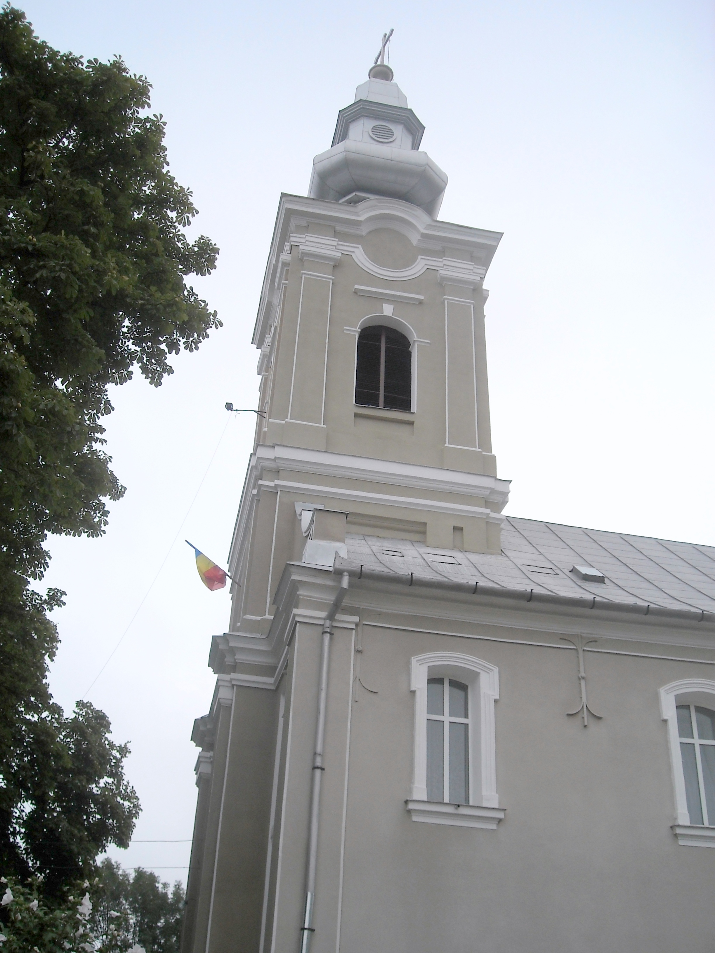 Orthodox church in Şiria, Romania